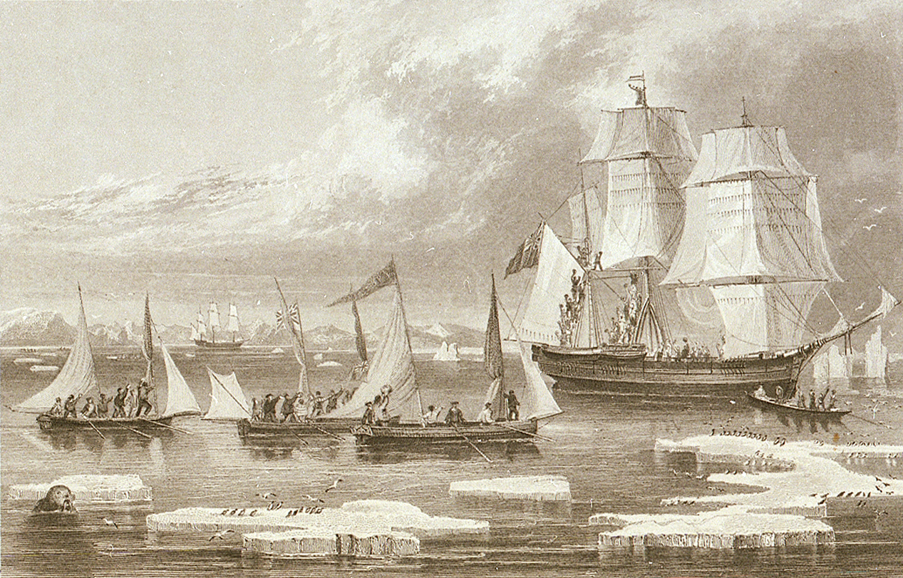 The Victory's crew sav'd by the Isabella Steel engraving showing the rescue of John Ross and his crew in 1833, after being stranded for four winters in the Arctic. Many people in England believed they were dead. By coincidence, Ross was found by the 'Isabella' the same ship he had commanded in 1818. She had subsequently returned to Hull, to her former service as an Arctic whaler. The 'Isabella’s' astonished crew informed Ross that he had been dead for two years.